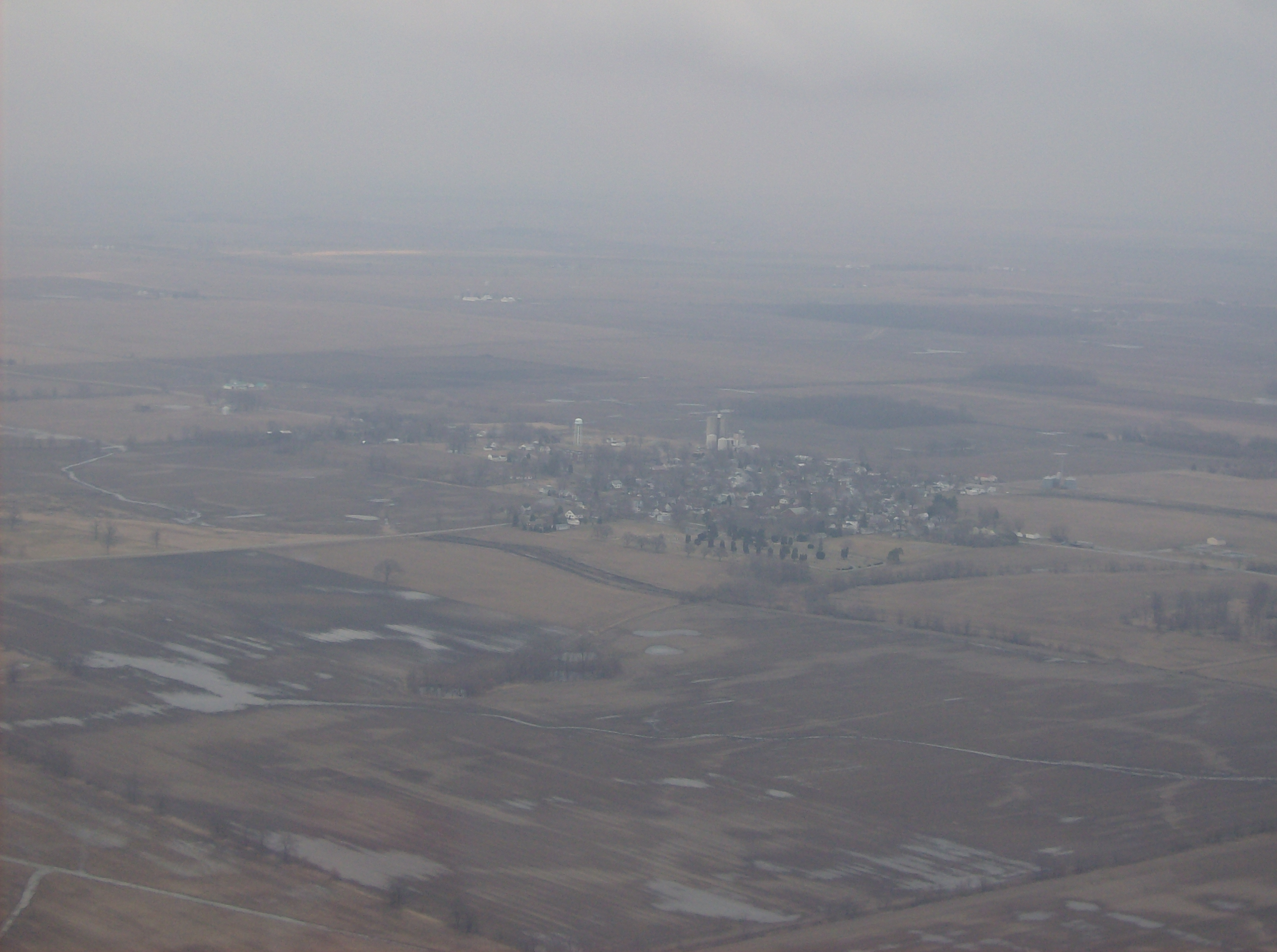 Aerial view of South Solon, a village in southwestern Madison County, Ohio, United States. Picture taken from a Diamond Eclipse light airplane at an altitude of 2,300 feet MSL at an bearing of approximately 7º.